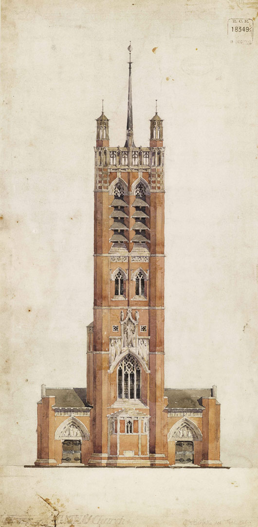 Design by the architect William Henry Bidlake for the northwest front of St Agatha's parish church, Stratford Road, Sparkbrook, Birmingham, drawn in ink and wash in 1899